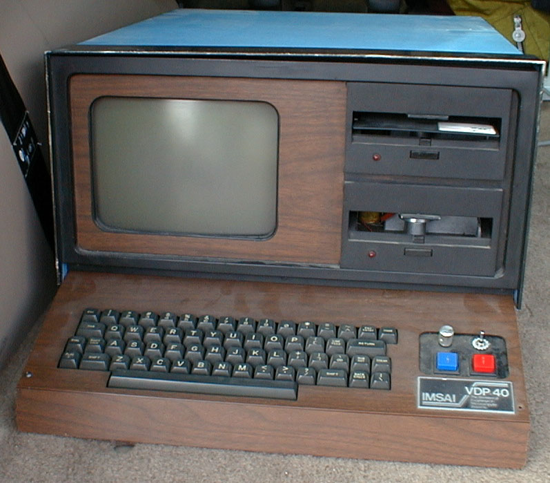 IMSAI VDP-40 desktop computer of 1977-1979. Intel 8085, 32 or 64 kB RAM, two 80/160 kB floppy disk drives, S-100 bus. 2 kB monitor ROM, 2 kB video ROM